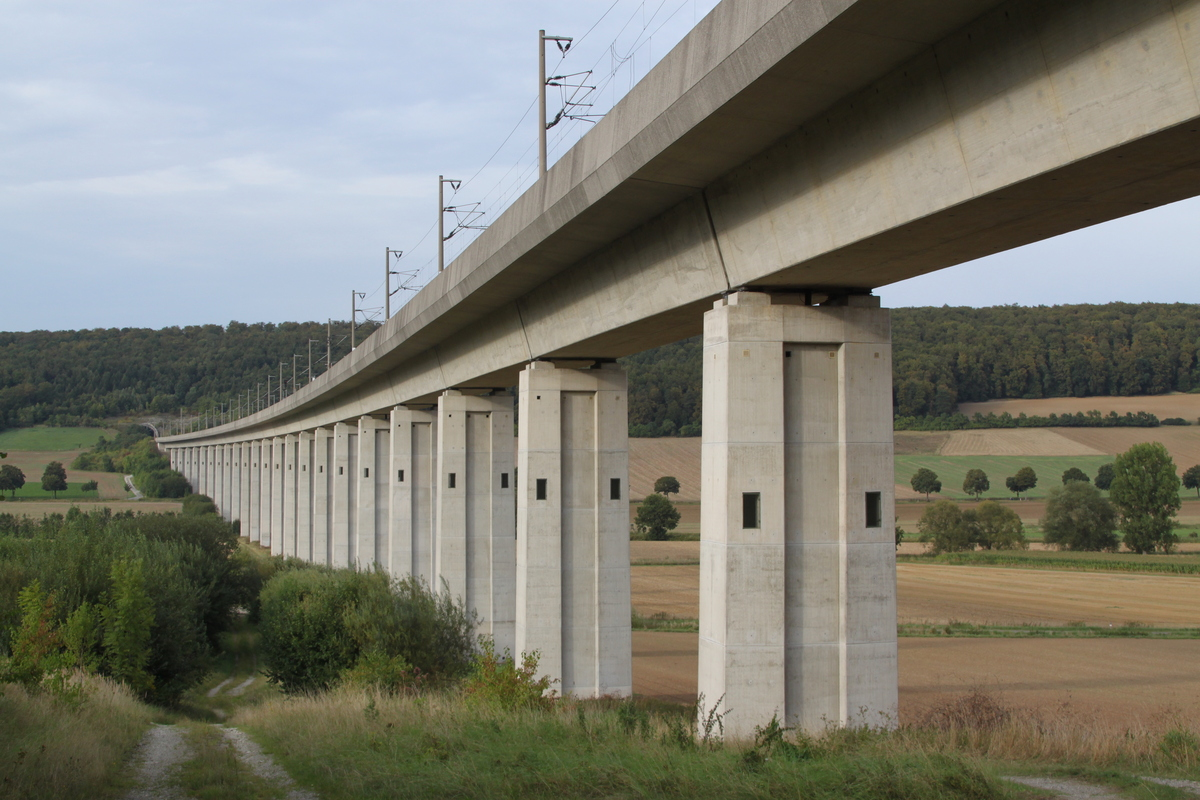 A view on Auetal bridge from below, headed north.